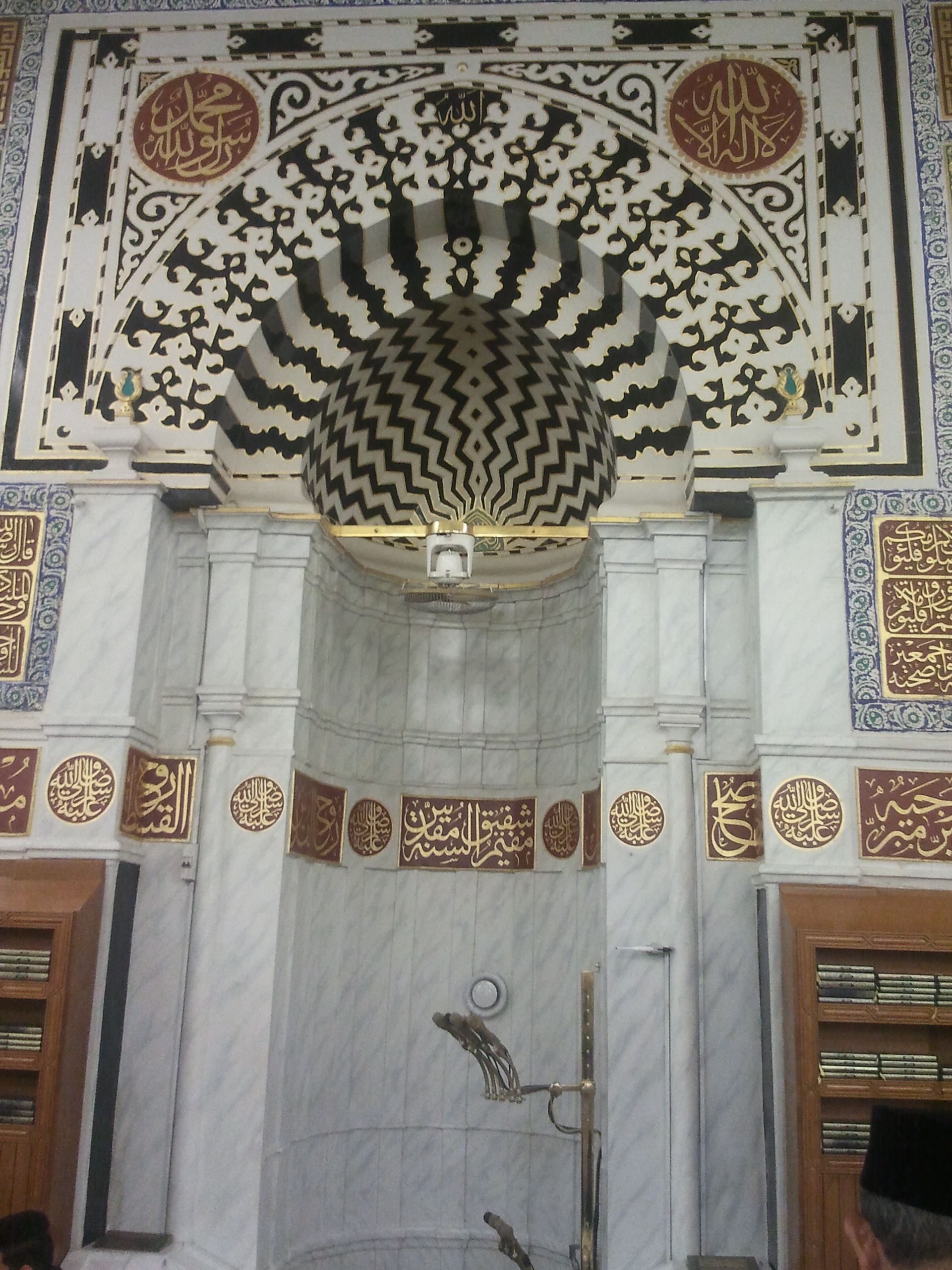 Mihrab Othmani at al-Masjid al-Nabawi